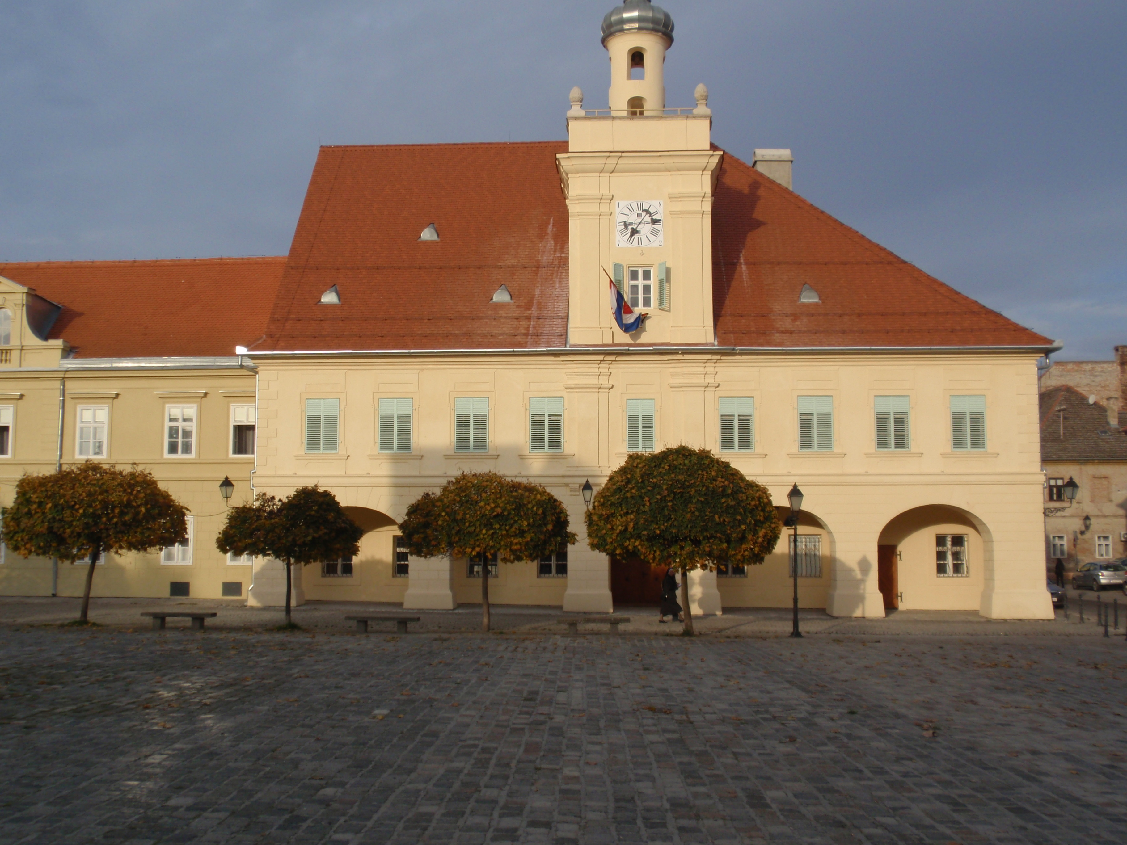 Archeological museum, Osijek